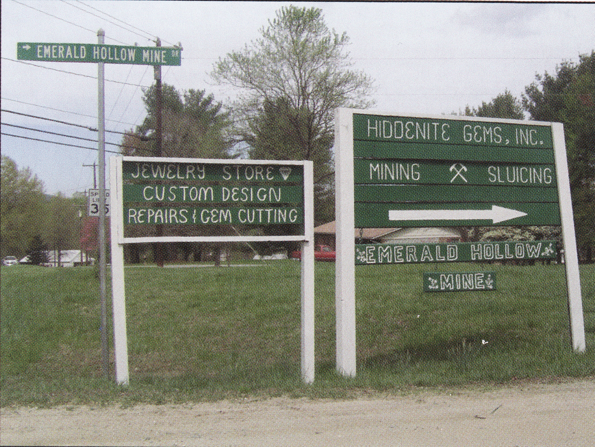 Jake Lowman, From Jake Lowman, Personal camera, printed, then scanned into computer